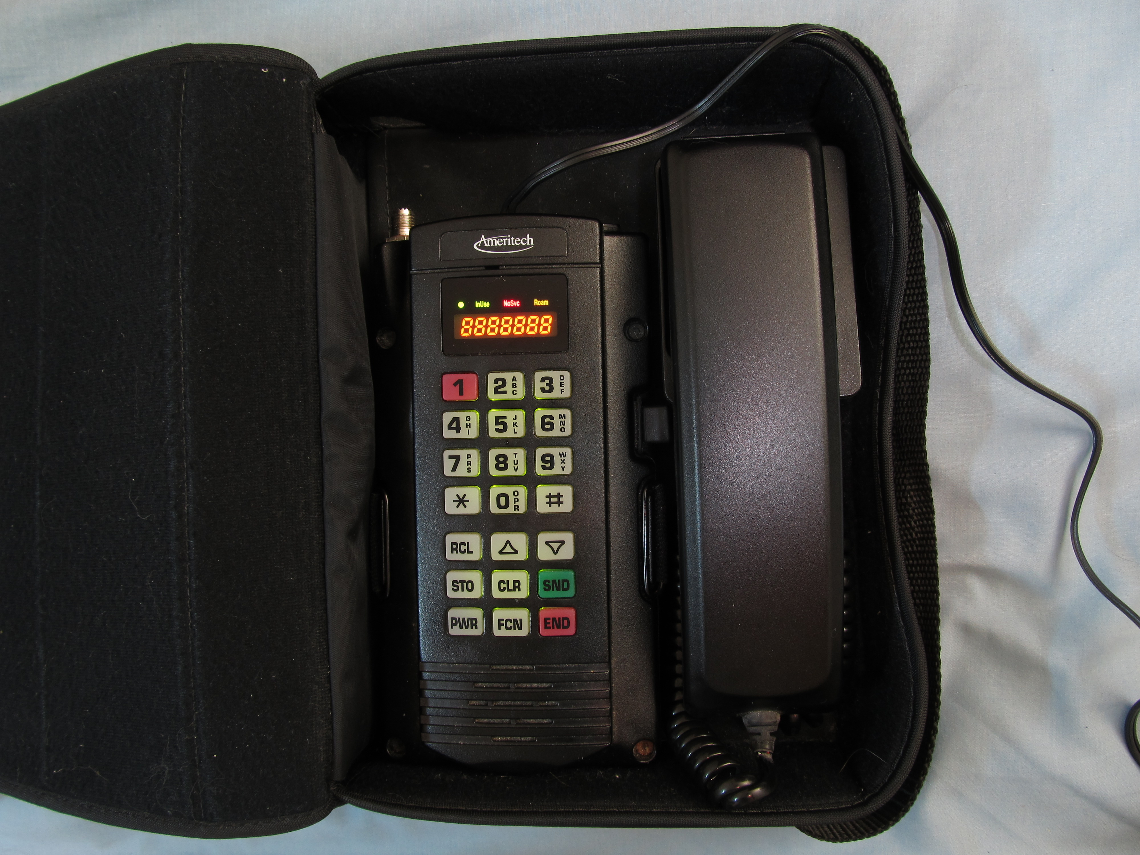 Motorola Power PAK transportable cellular "bag phone". Unique for its placement of the controls and display on the transceiver instead of the handset, which was carried over to the M-series digital bag phones.